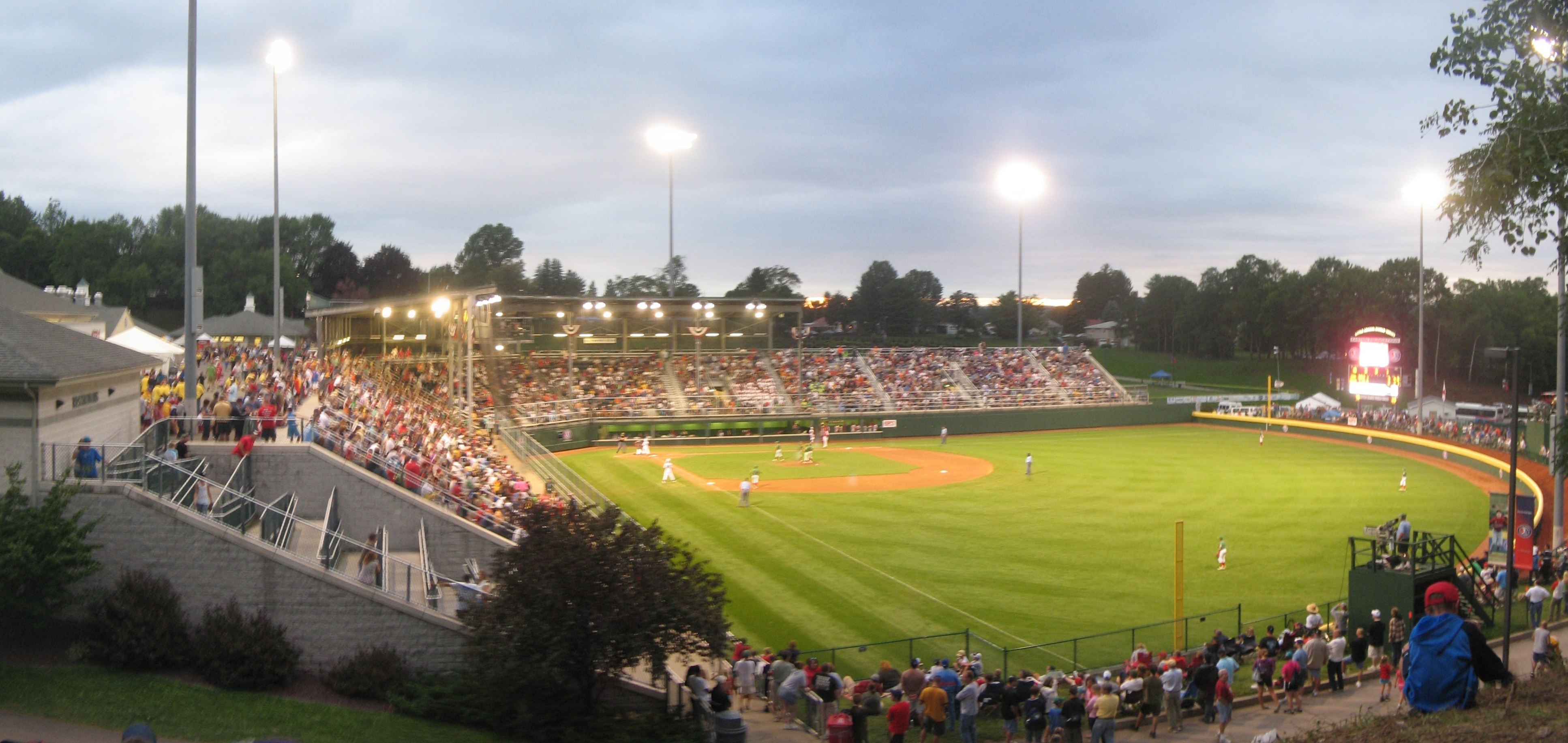 Little Leage Volunteer Stadium during the 2010 Little League World Series in South Williamsport, Lycoming County, Pennsylvania, USA